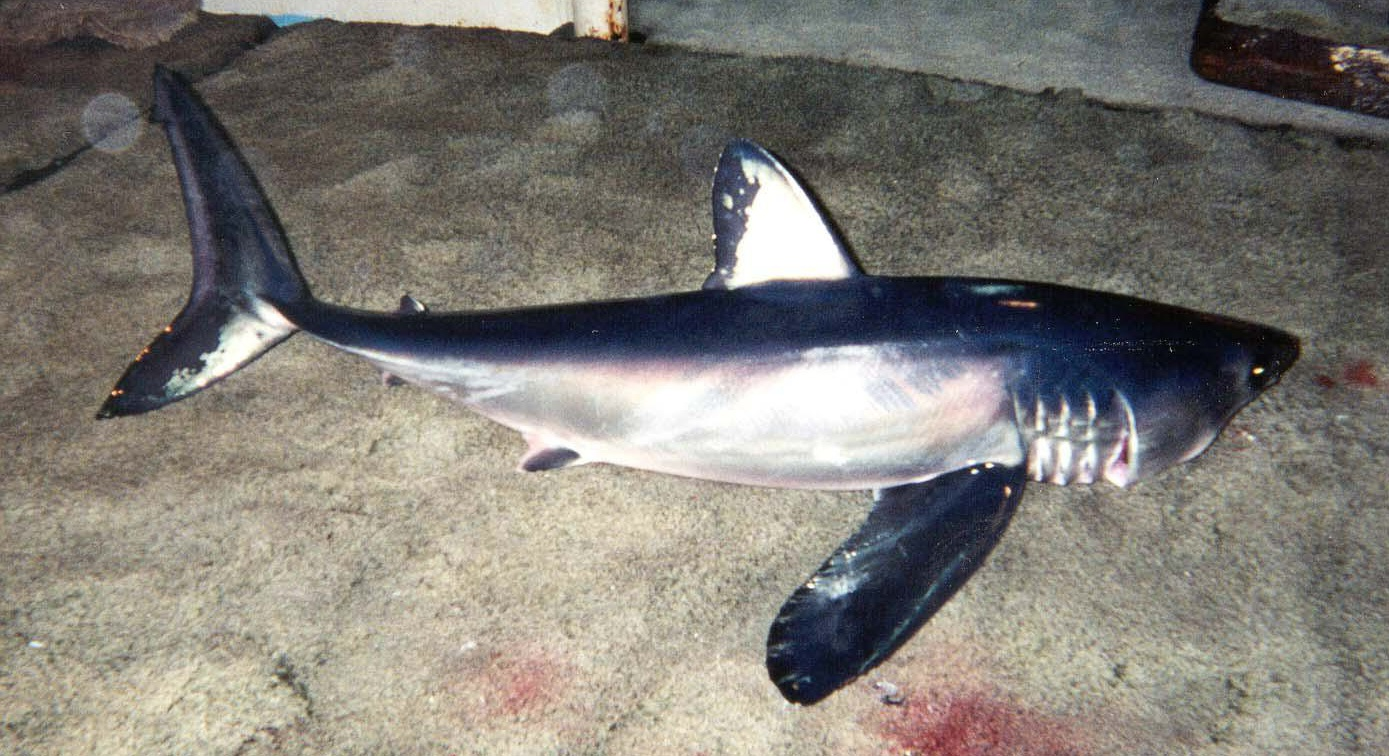 Longfin mako shark (Isurus paucus)